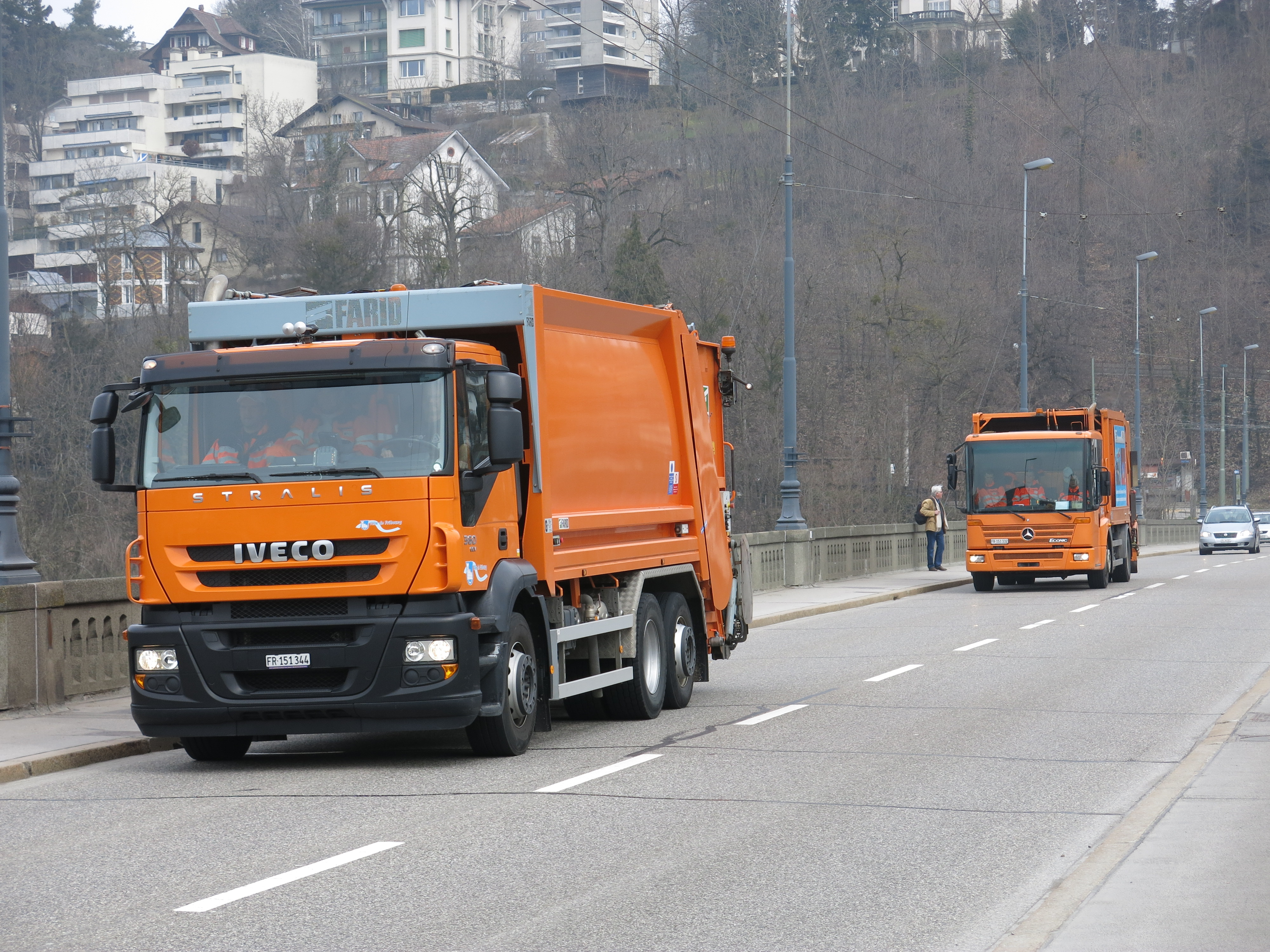 Fribourg, Switzerland